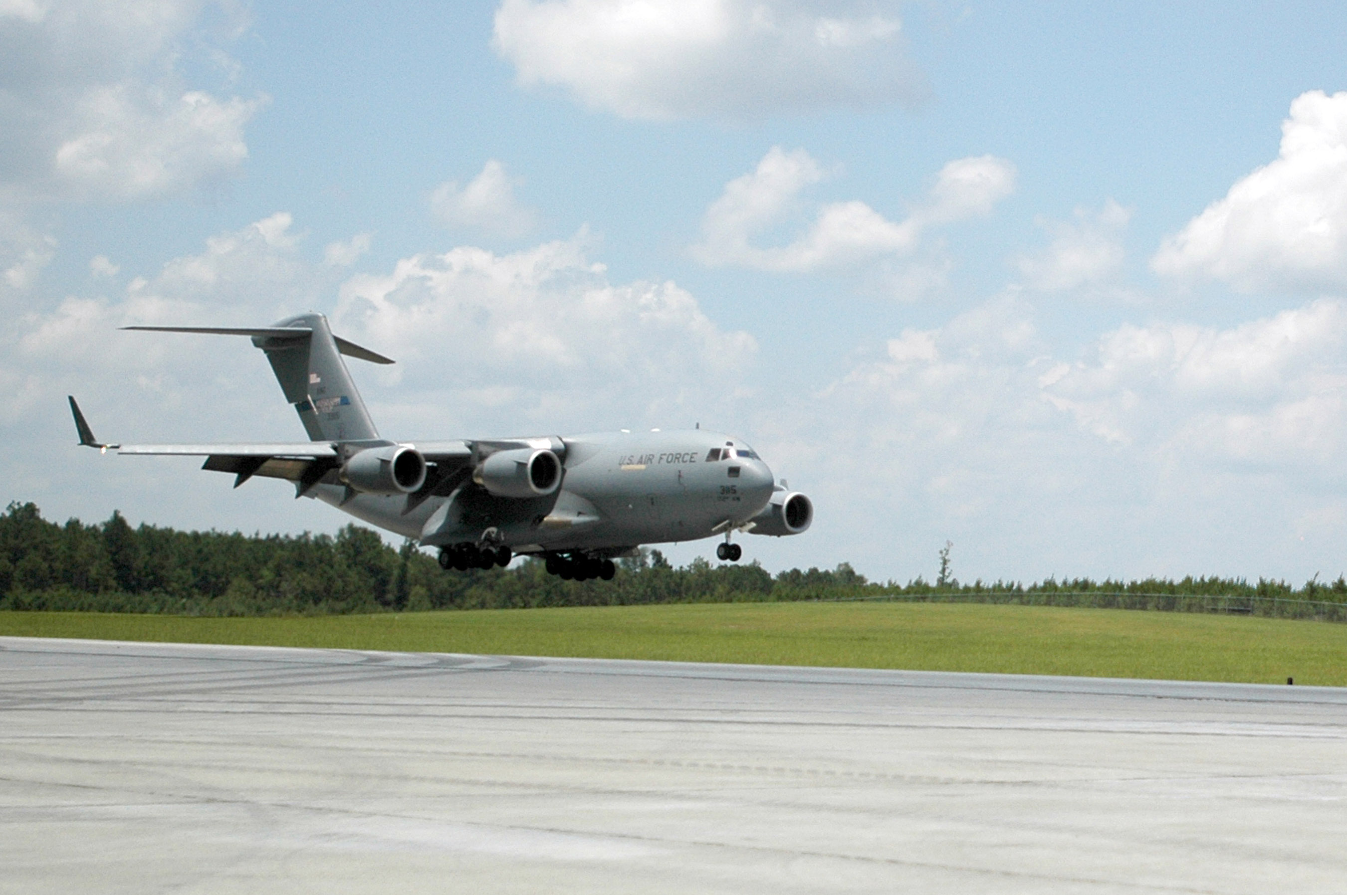 Shelby Auxiliary Field 1 at Camp Shelby Air Guard opens new combat training runway: A C-17 Globemaster III from the Mississippi Air National Guard's 172nd Airlift Wing lands at the new assault training runway at Camp Shelby, Mississippi, July 9, 2007. The 210-acre Shelby Aux Field is one of only two facilities in the world designed for C-17 short-field landing operations. It was constructed to meet Air Force C-17 training requirements. [1]